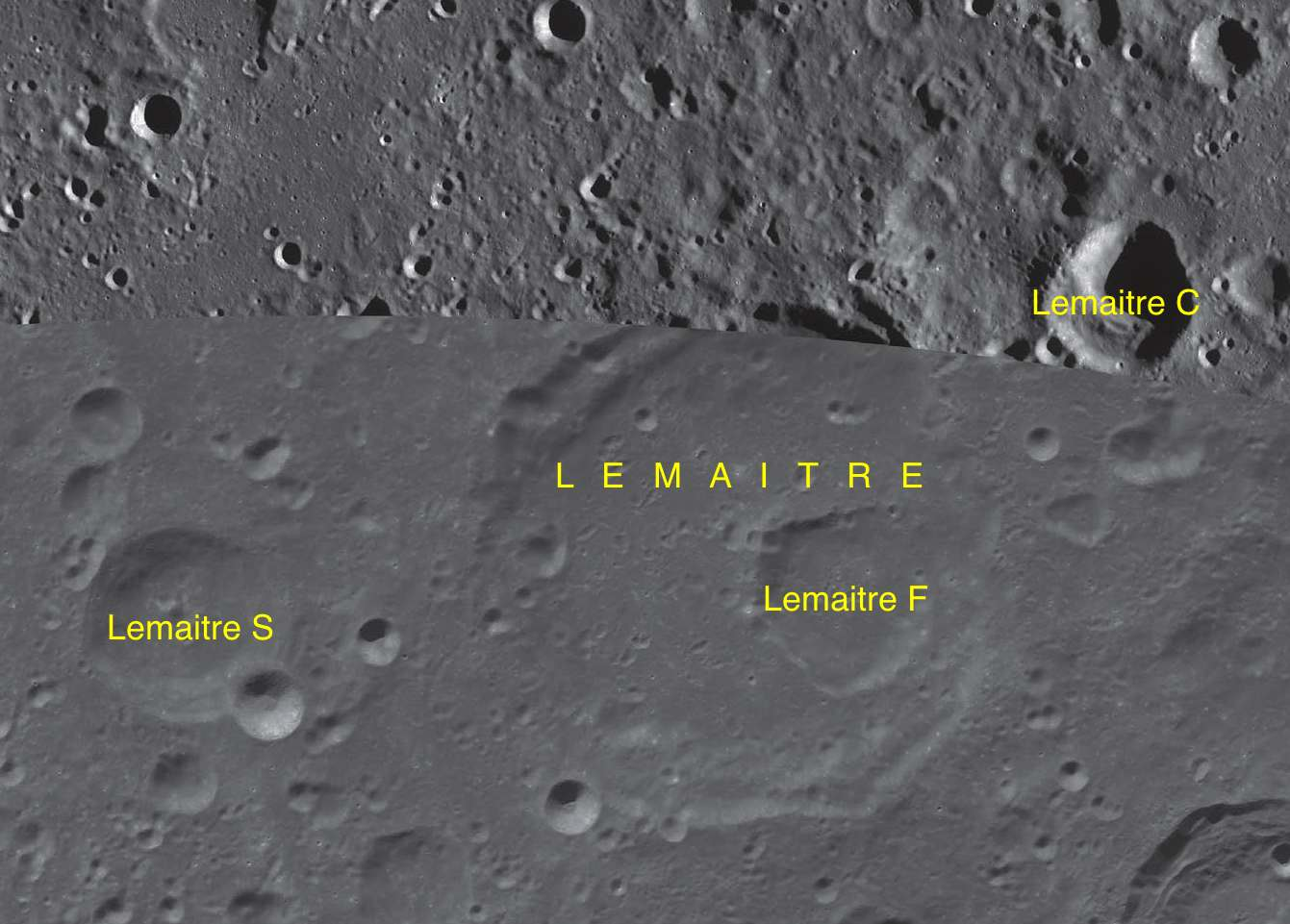 Part of the chart LAC-133 used for the presentation